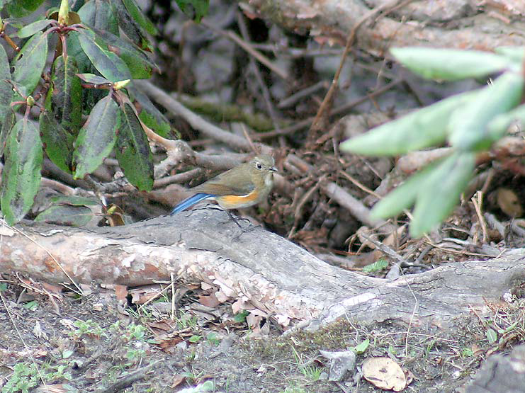 Himalayan Bluetail Tarsiger rufilatus in Kullu District of Himachal Pradesh, India.